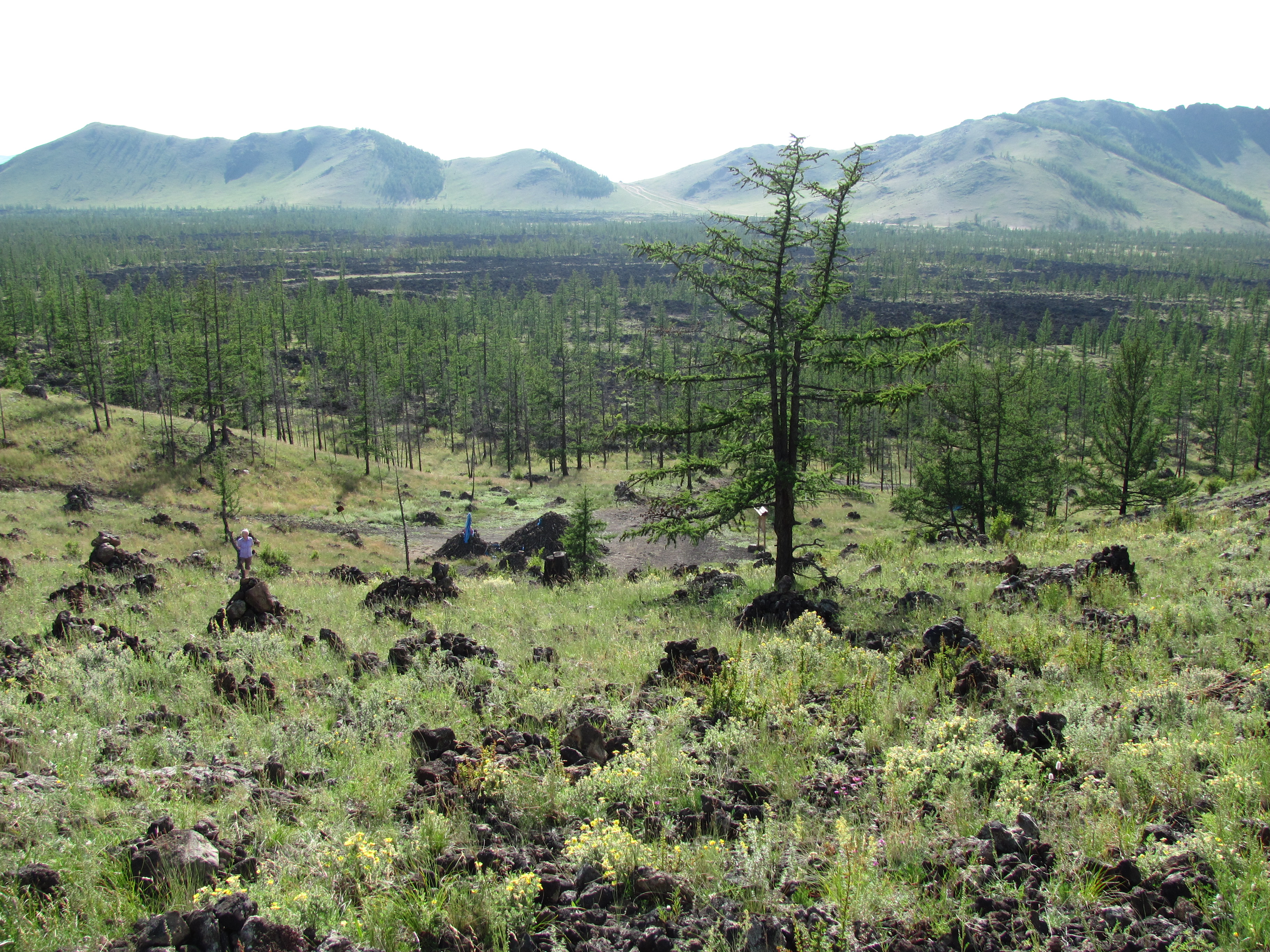 View from Khorgo volcano, Arkhangai Aimag, Mongolia.